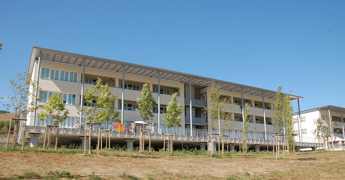 L'Aquila 2010